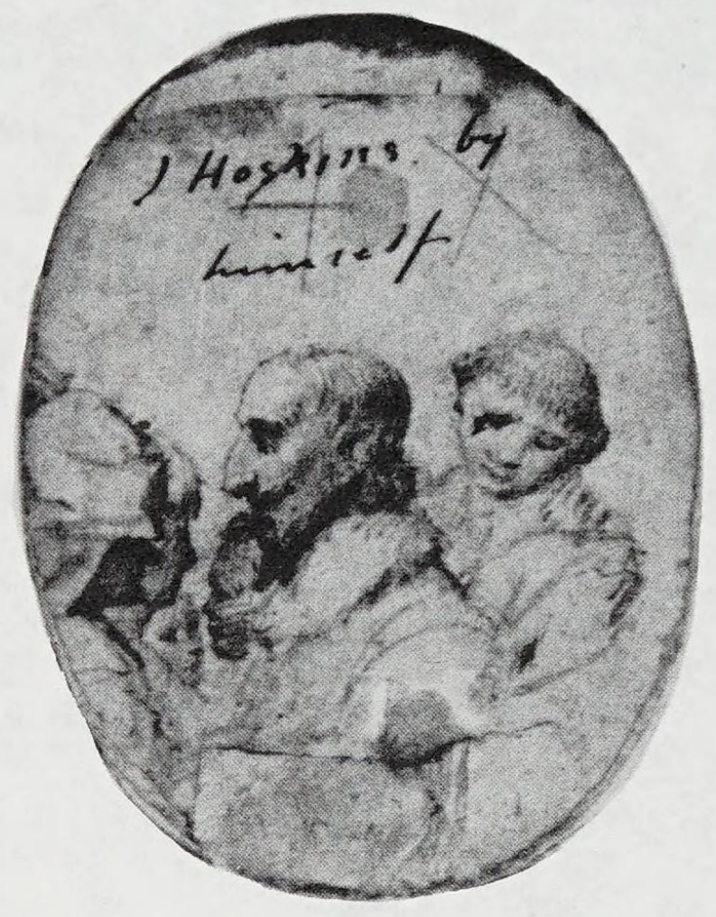 A self portrait by poet John Hoskins (not to be confused with the miniaturist) with his wife, step-daughter and step-son. Probably painted late July 1618. See Whitlock p. 534 for more details.